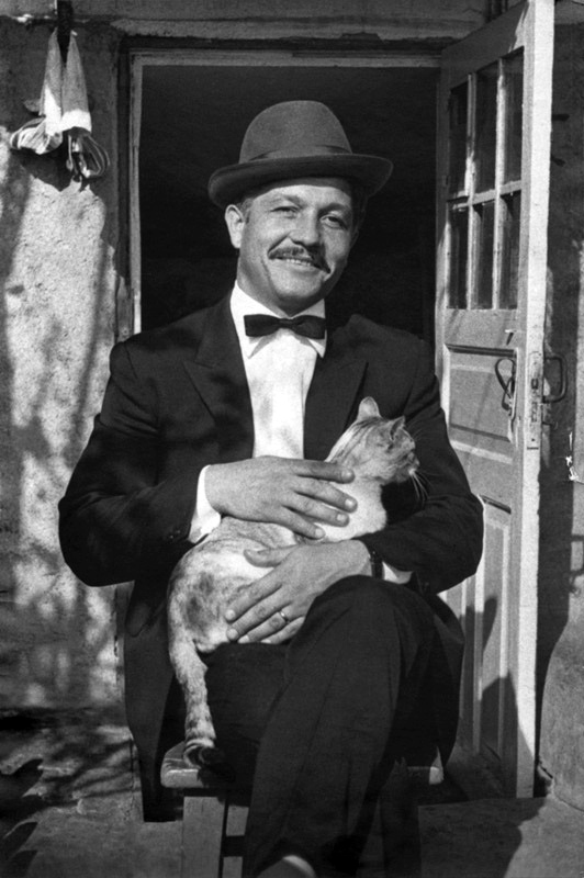 Mihai Volontir. Occurrences in a role (Moldova-film, 60th years).